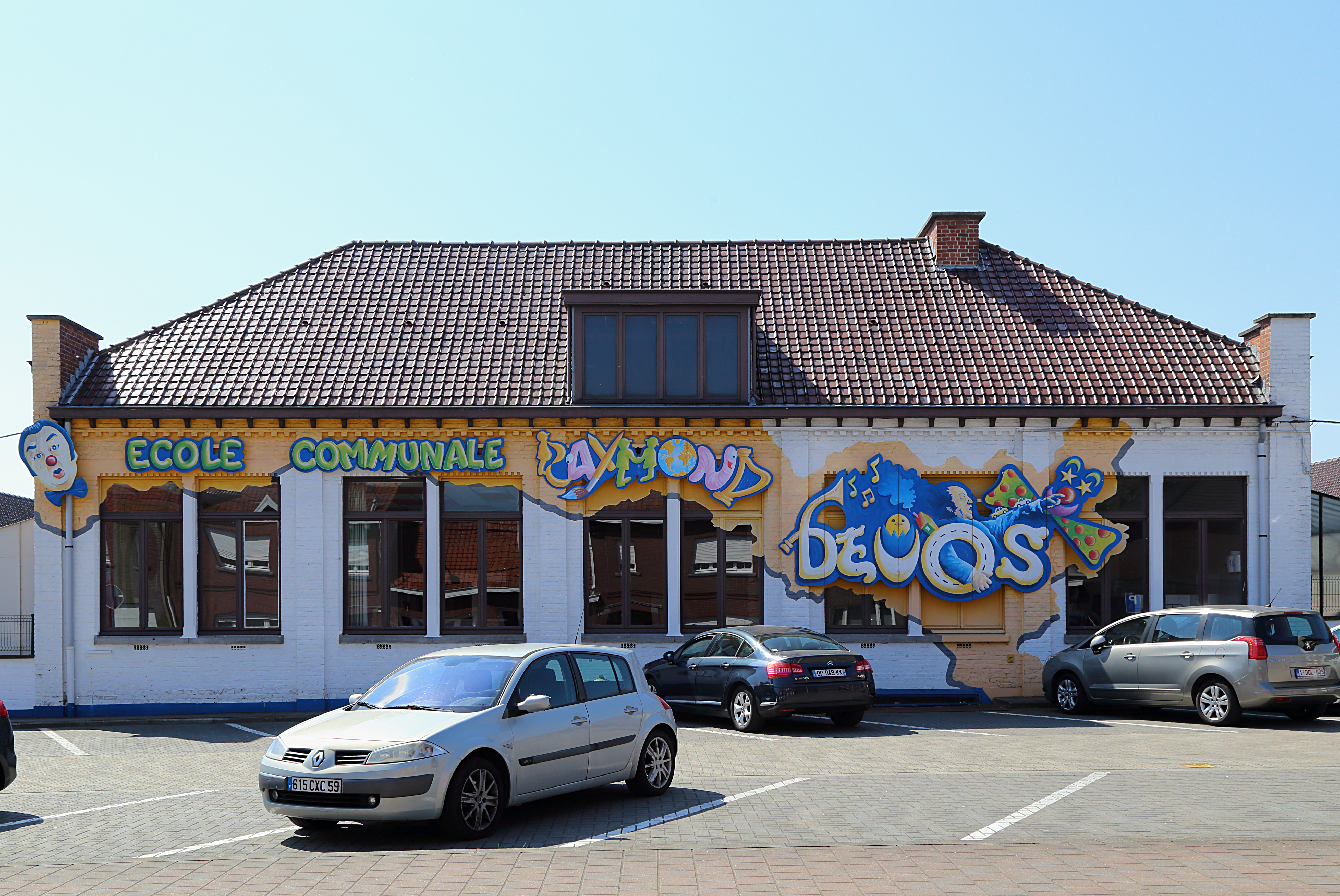 The municipal school Raymond Devos in Mouscron, Belgium.